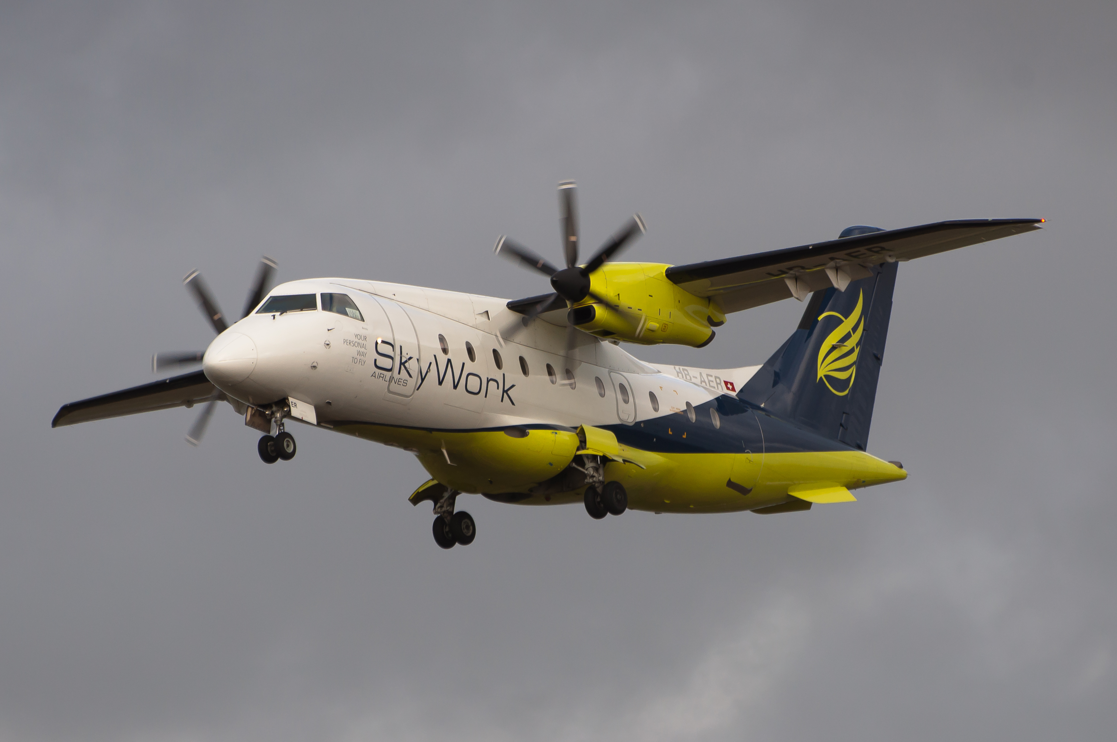 Skyworks Dornier DO-328 landing at Schiphol